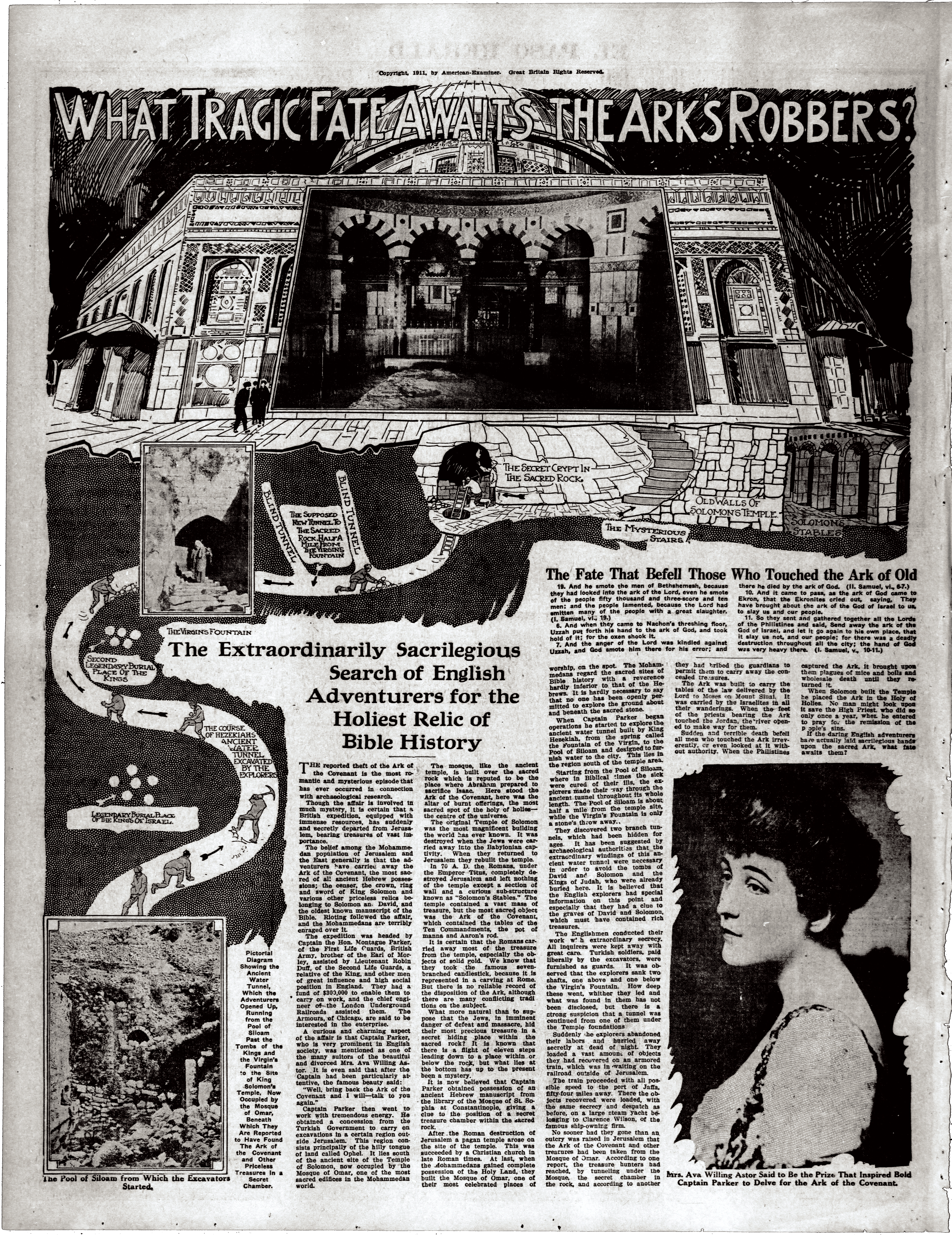 Article published by El Paso Herald.